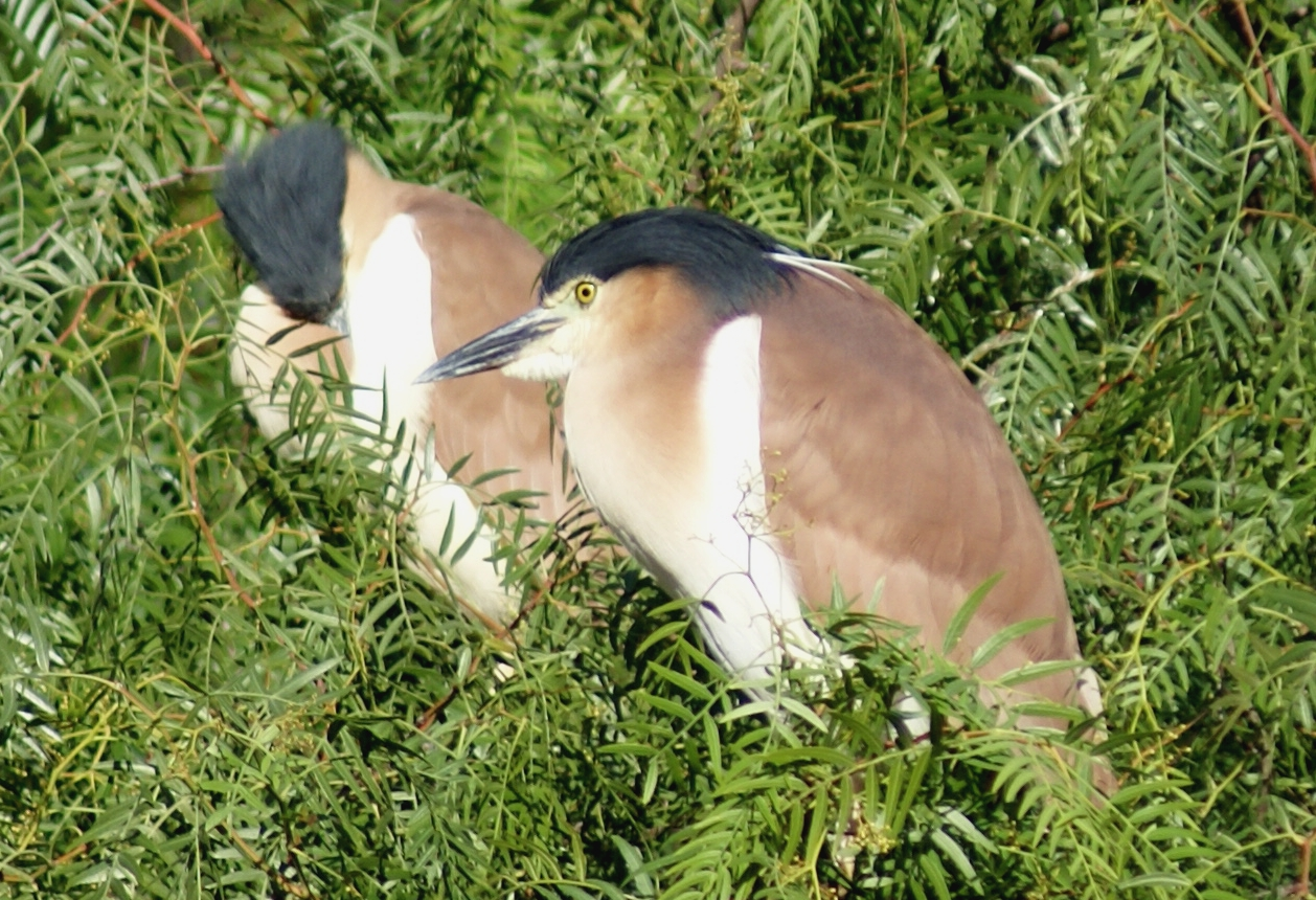 A pair of Nankeen Night Herons at the Melbourne Zoo.